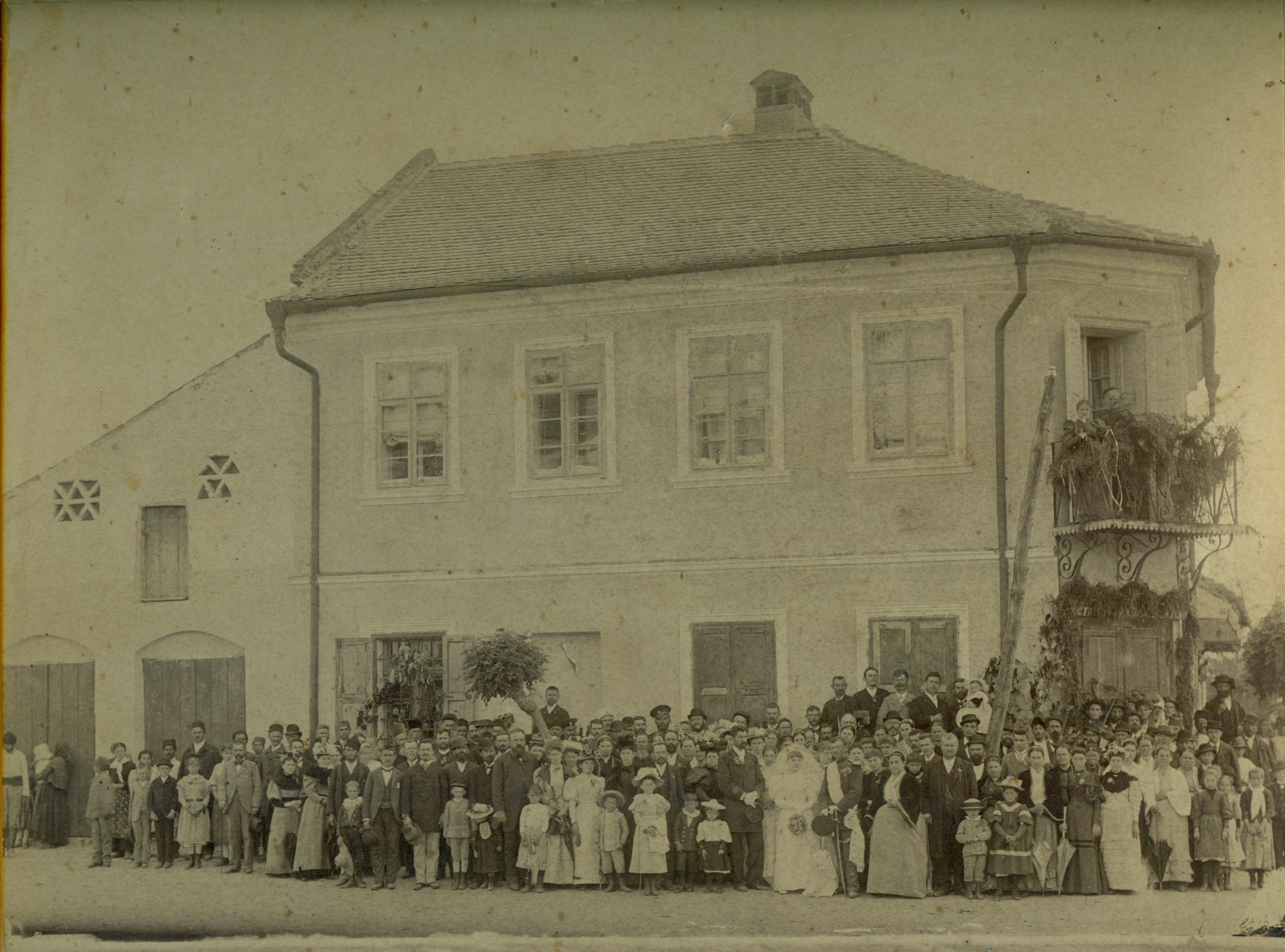 Wedding in Negotin in front of the tavern which will become Hotel Paris, the first decade of the 20th century Srpski (latinica): Svadba u Negotinu ispred kafane koja će postati Hotel Pariz, prva polovina XX veka